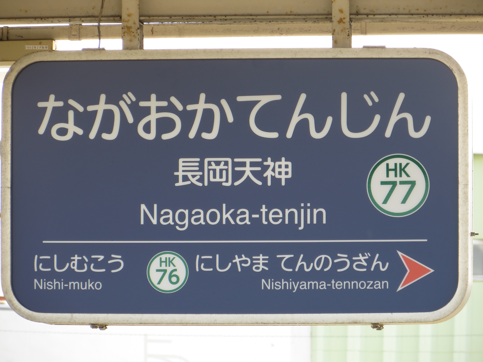 Sign from Nagaoka-tenjin Station (HK77).